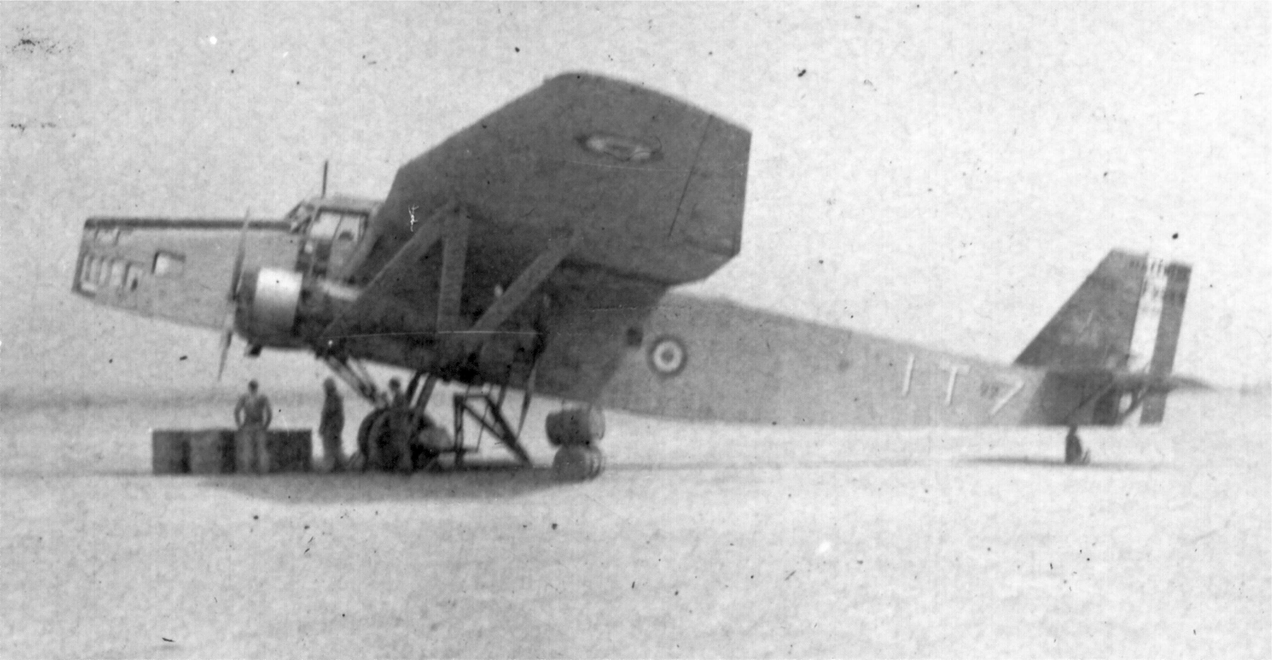 Photo probably from North Africa c. 1943. The aircraft is a Farman F.222 (thanks to volvodadfast for the identification). This is a quadrimotor aircraft, with engines pointing forward and backward attached to each wing.